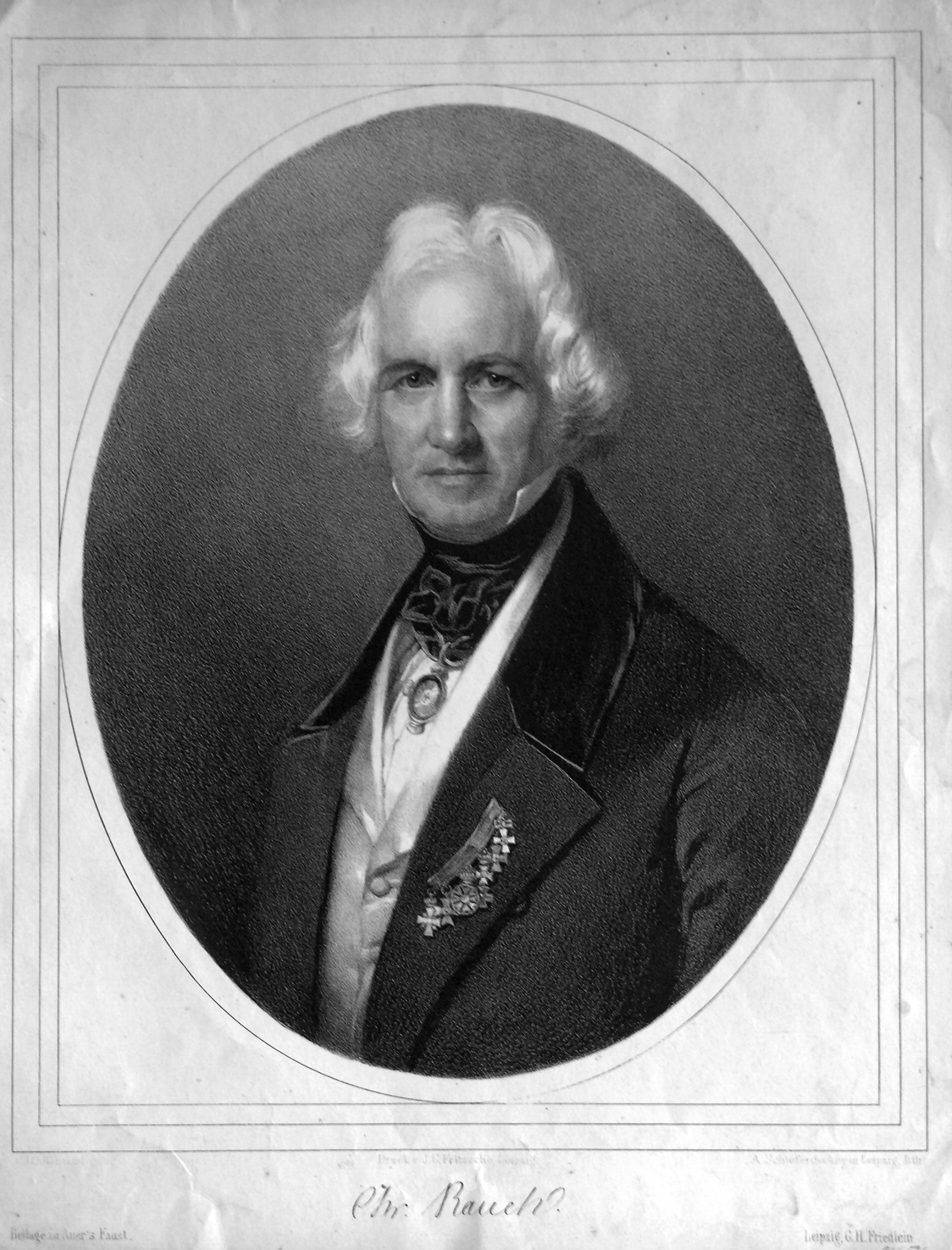 Christian Daniel Rauch (1777-1857), German sculptor Lithograph by G. H. Friedlein, about 1850